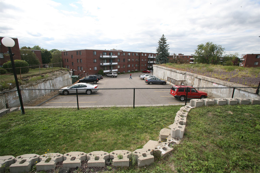 This photo, taken in September, 2010, looks west at Pit A of Battery Lincoln, which has been half filled with earth and paved over. It is now used as a parking lot for the Governor's Park Condominiums. Pit B of Btty Lincoln is similar. Pit A of Btty Kellogg, now covered with a building, is located to the east, behind the camera position.